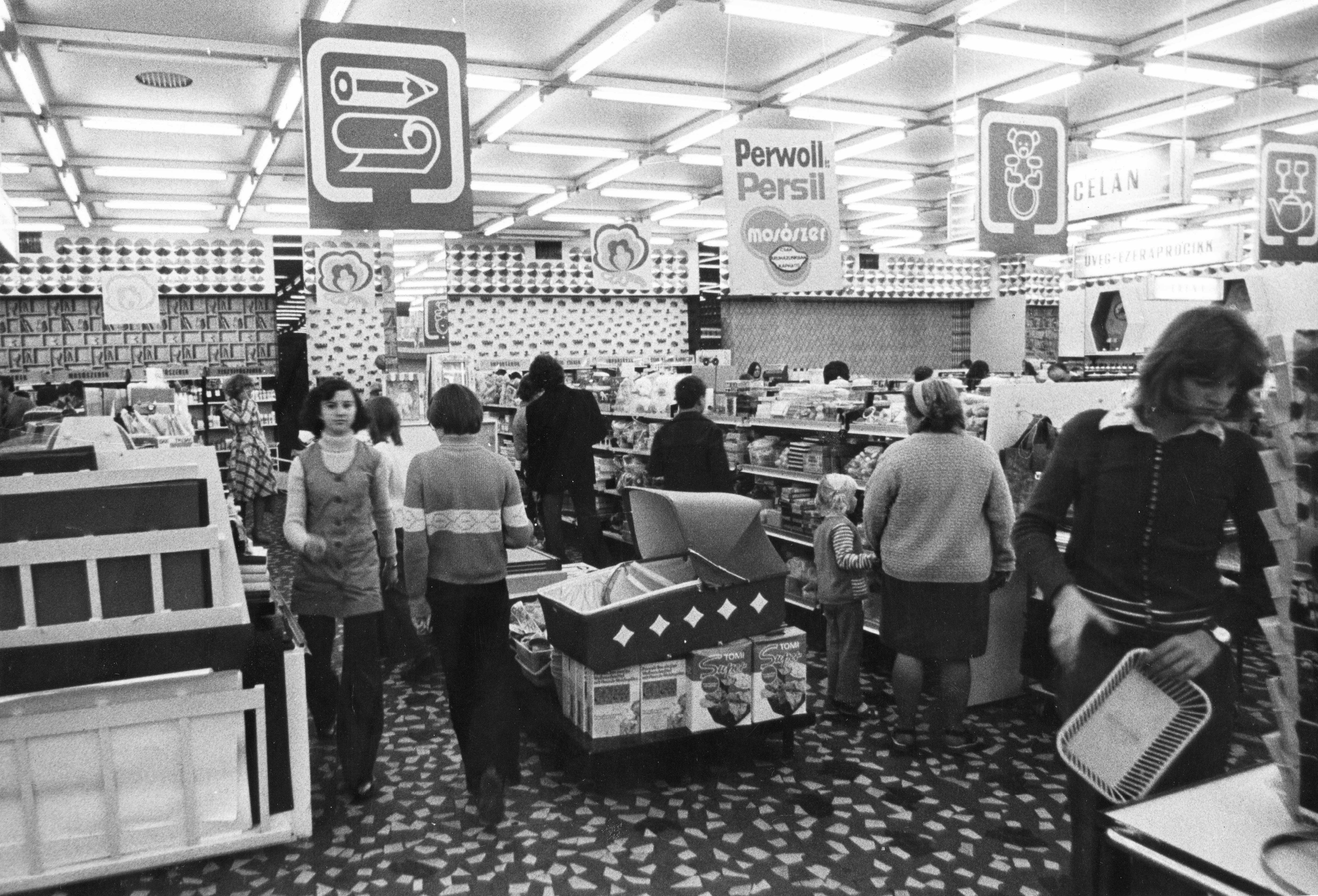 Tags: Perwoll-brand, Persil-brand, washing powder, shop, Csemege enterprise, interior, genre painting, self-serving